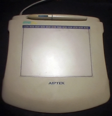 A photograph of an AIPTEK graphics tablet plus pen.